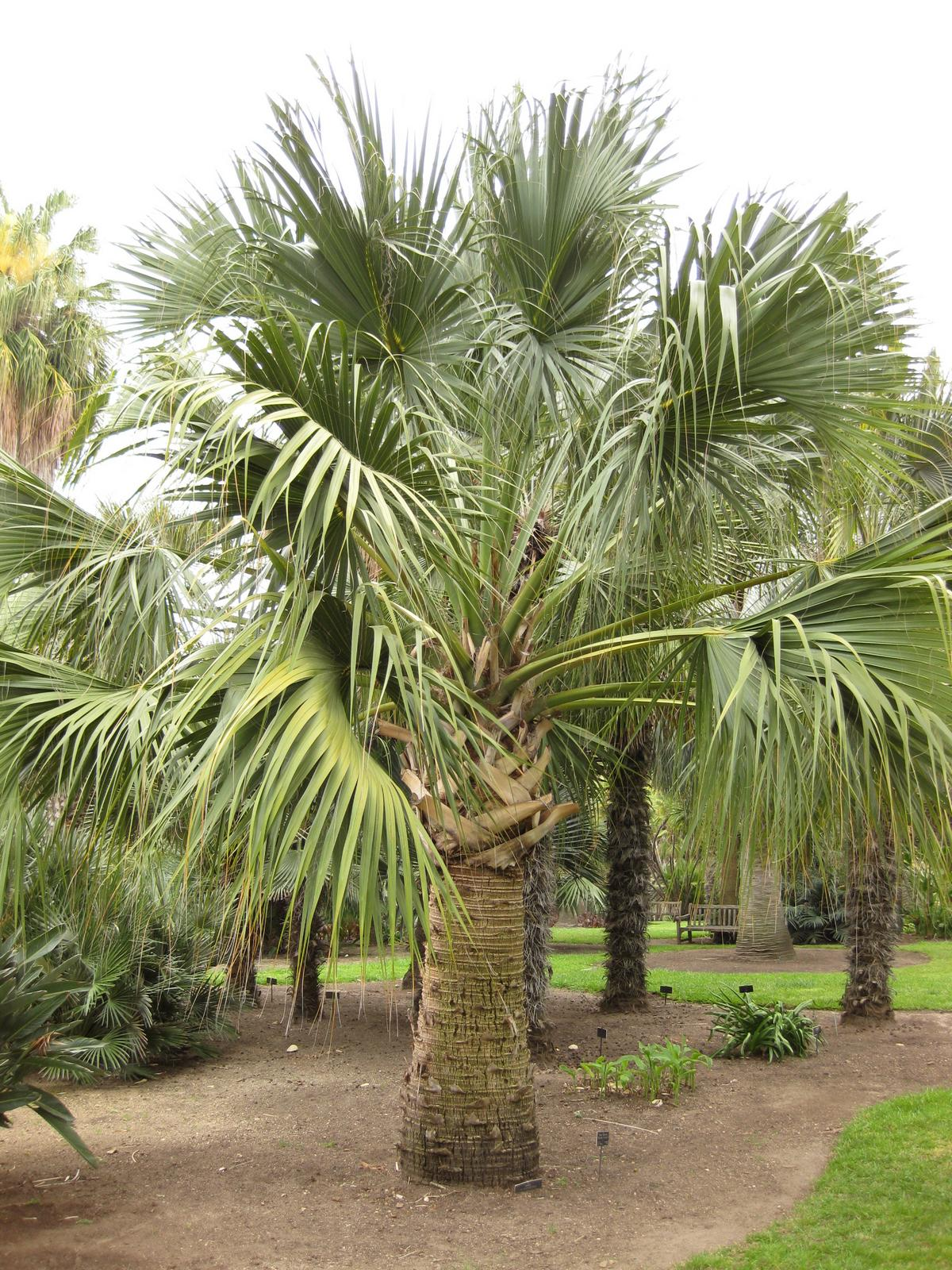 Photographed at Huntington Gardens (Los Angeles) in April